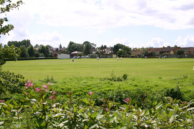 Buckingham cricket ground Looking across the Great Ouse to the Buckingham cricket ground